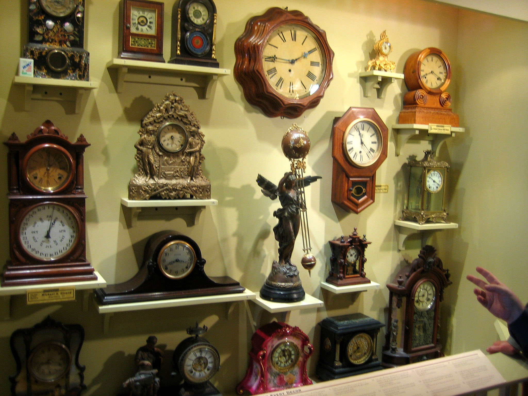 A broad sample of various styles of American factory made clocks in the exhibit at the American Watch and Clock Museum in Bristol CT